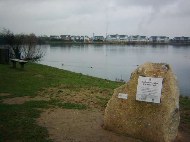 Leybourne Lakes This square is nearly all lake! This is Leybourne Lakes country park, formerly a gravel quarry.